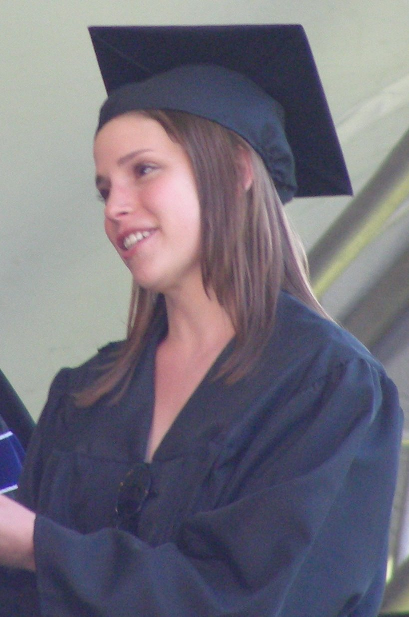 Julia Whelan at Middlebury College Commencement, May 25, 2008; cropped version of Julia Whelan -- Middlebury Commencement.JPG